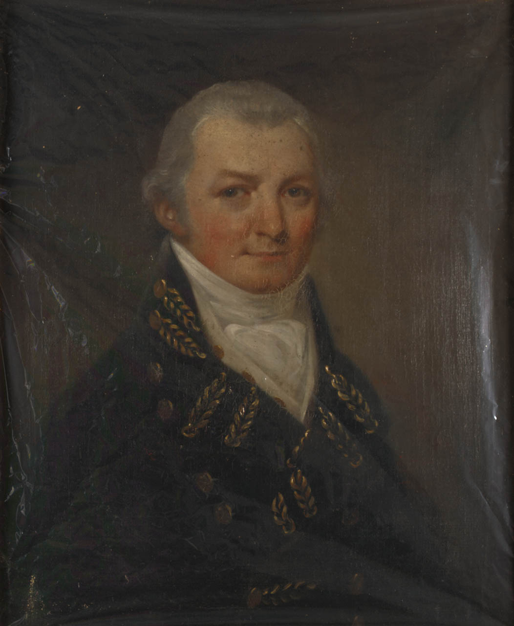 Captain for the British East India Company; Oil on canvas, 760 mm x 635 mm